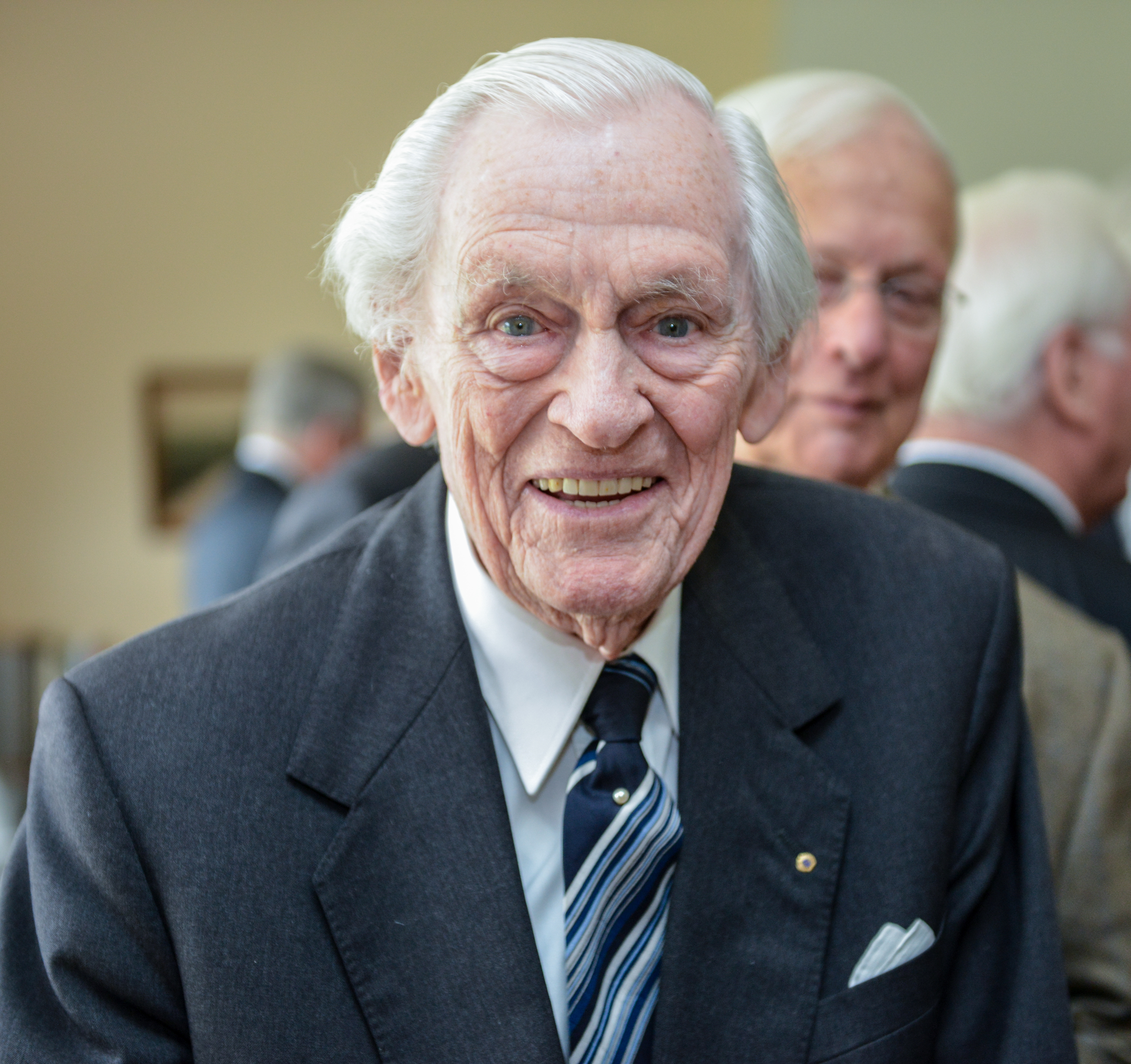 Reinhard Hardegen on his 103rd birthday